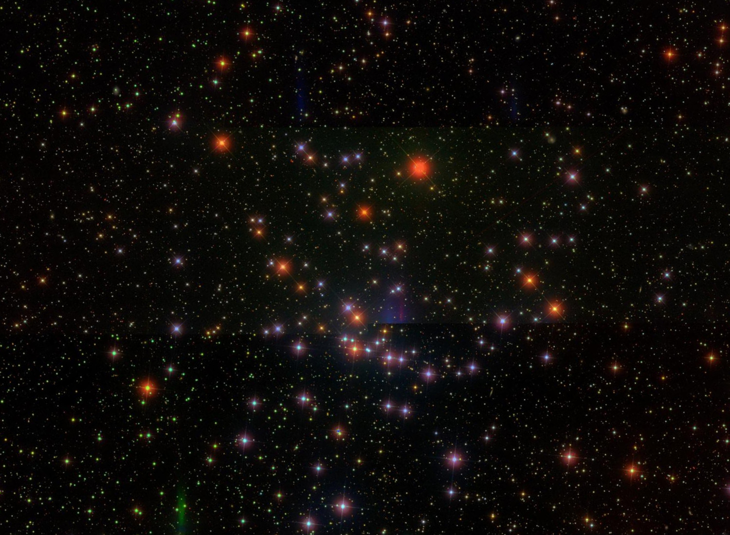 Angle of view: 45' × 33' (1.8" per pixel), north is not up.